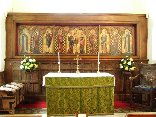 Retable St.Marys Thornham Parva 14th century Retable St.Marys Thornham Parva more info